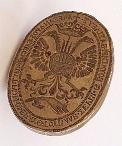 A seal which might have belonged to Scanderbeg. Photo: Bjoern Andersen